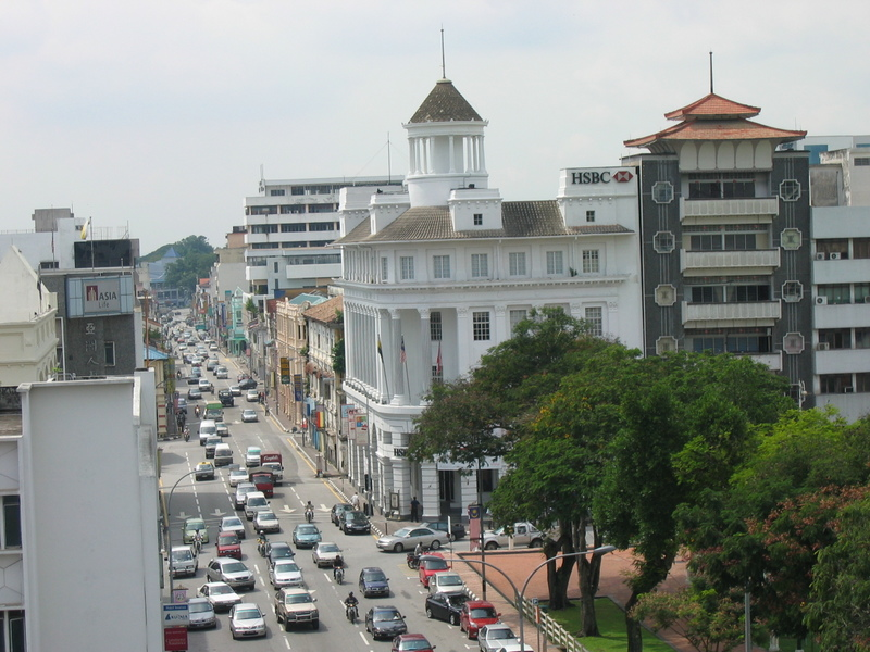 Scene from the old Ipoh town Centre in the state of Perak, Malaysia.